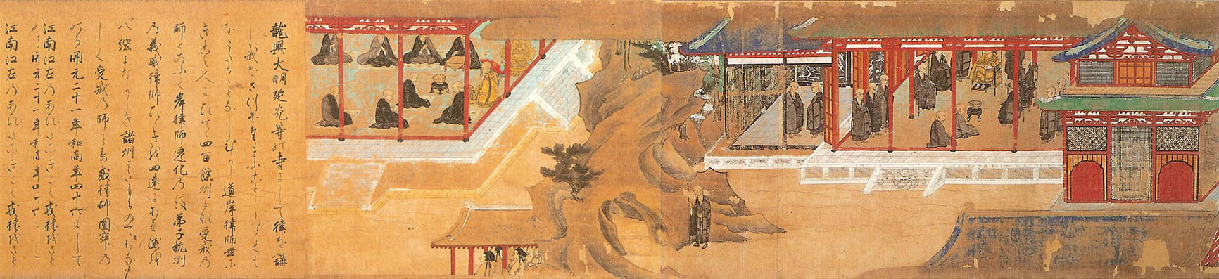 The Eastern Journeys of Ganjin, Toshodaiji, Nara, Japan